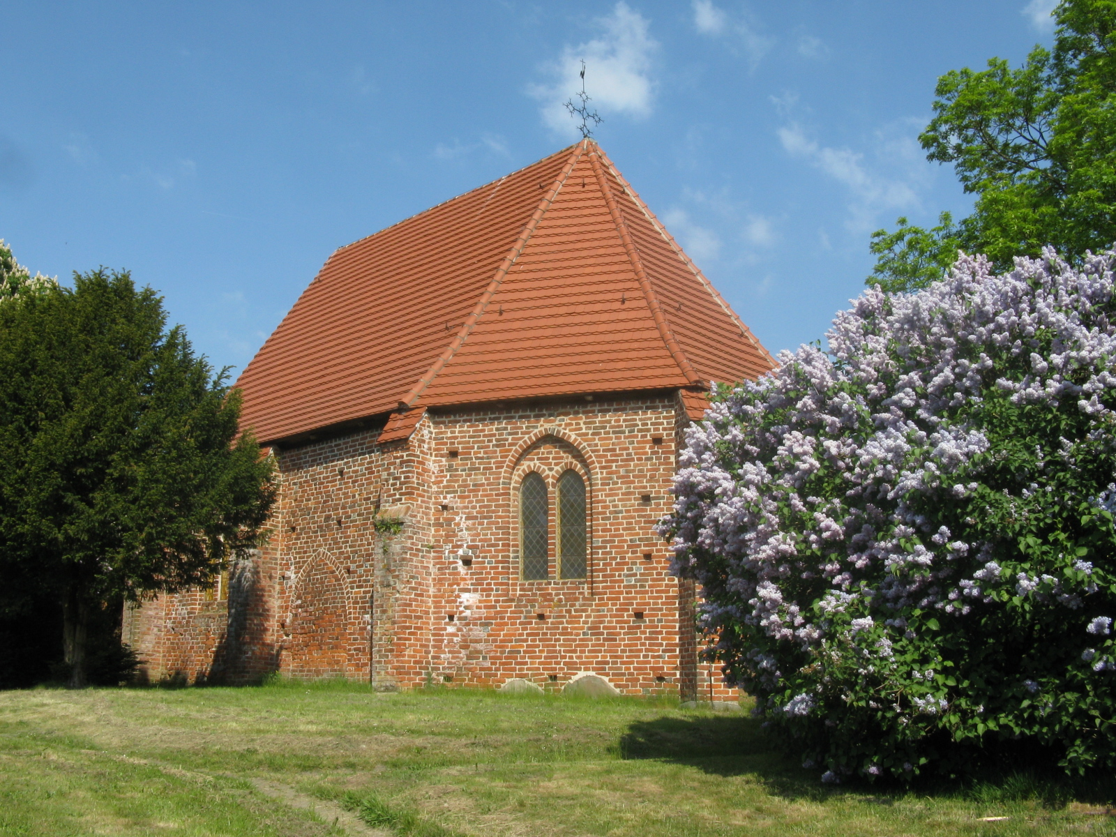 Church in Gammelin, district Ludwigslust-Parchim, Mecklenburg-Vorpommern, Germany